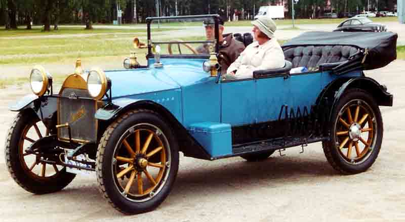 Hupmobile Model 32 Touring 1913